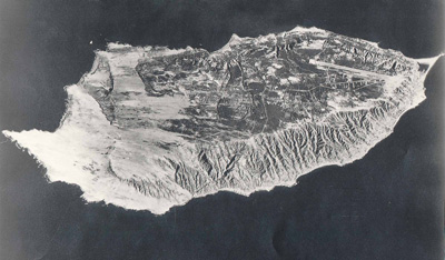 Aerial photograph of San Nicolas Island, Channel Islands, California